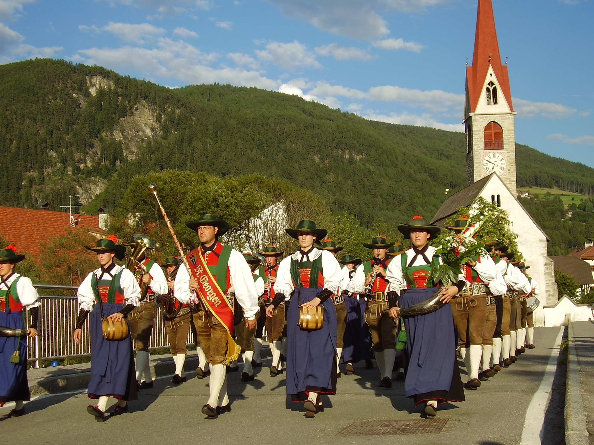 The band of St. Georgen (Bruneck, South Tyrol, Italy)